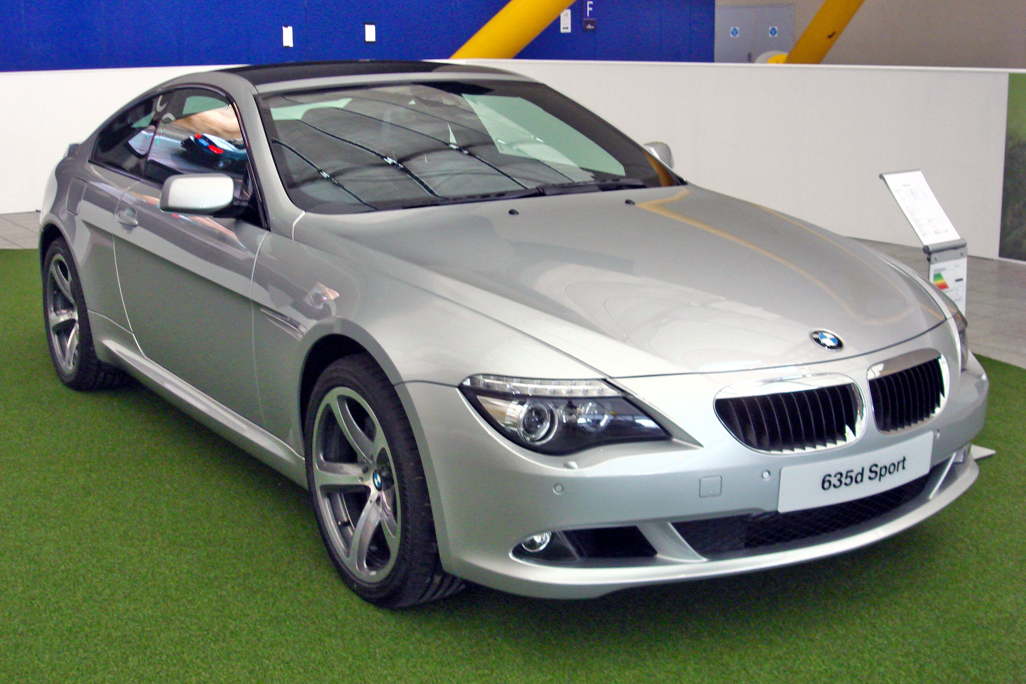 a BMW 635d sport exhibited in The O2 (formerly the Millennium Dome)